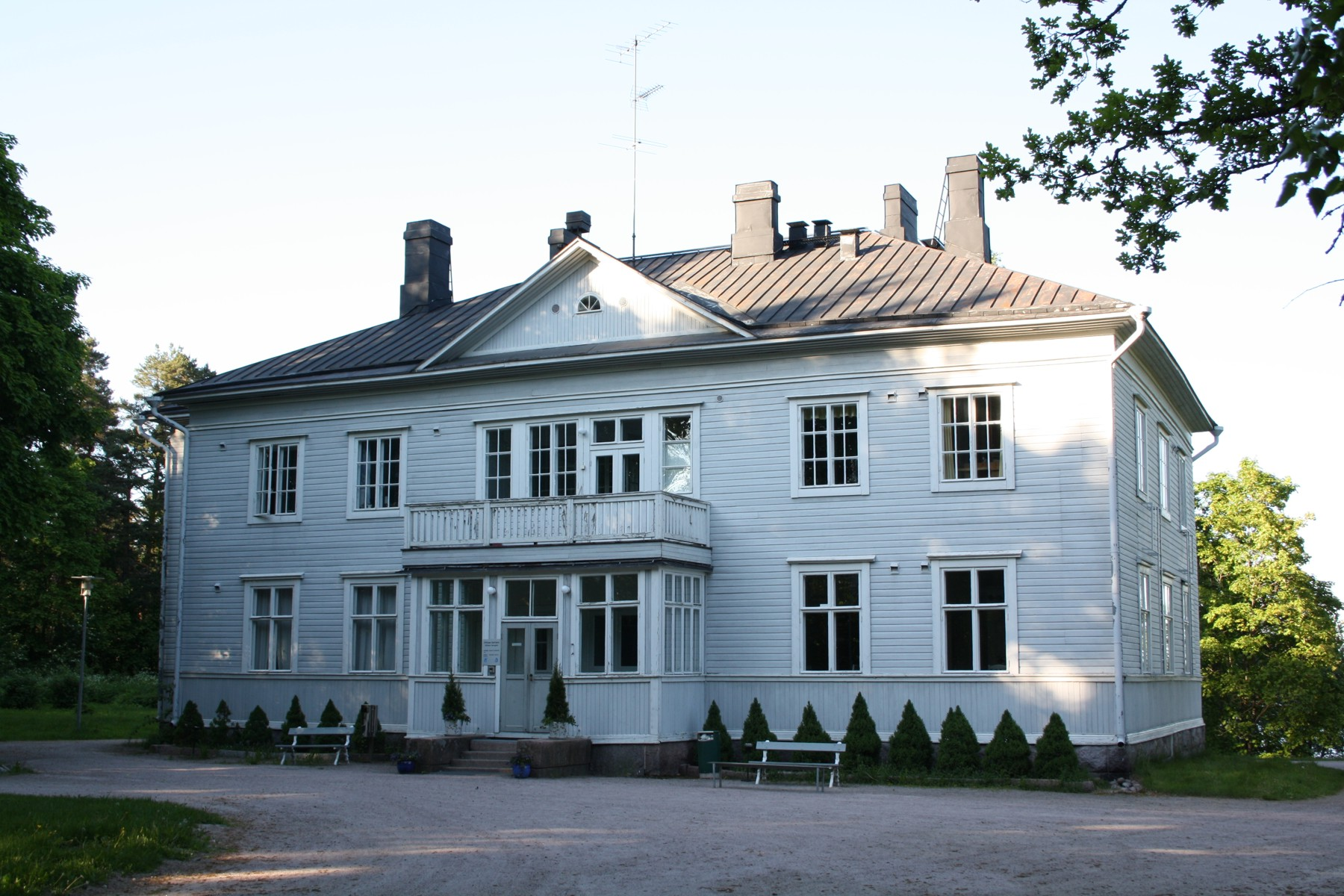 Oitans manor house, Espoo, Finland.